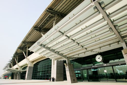 Entrance 4B, THSR Taichung Station